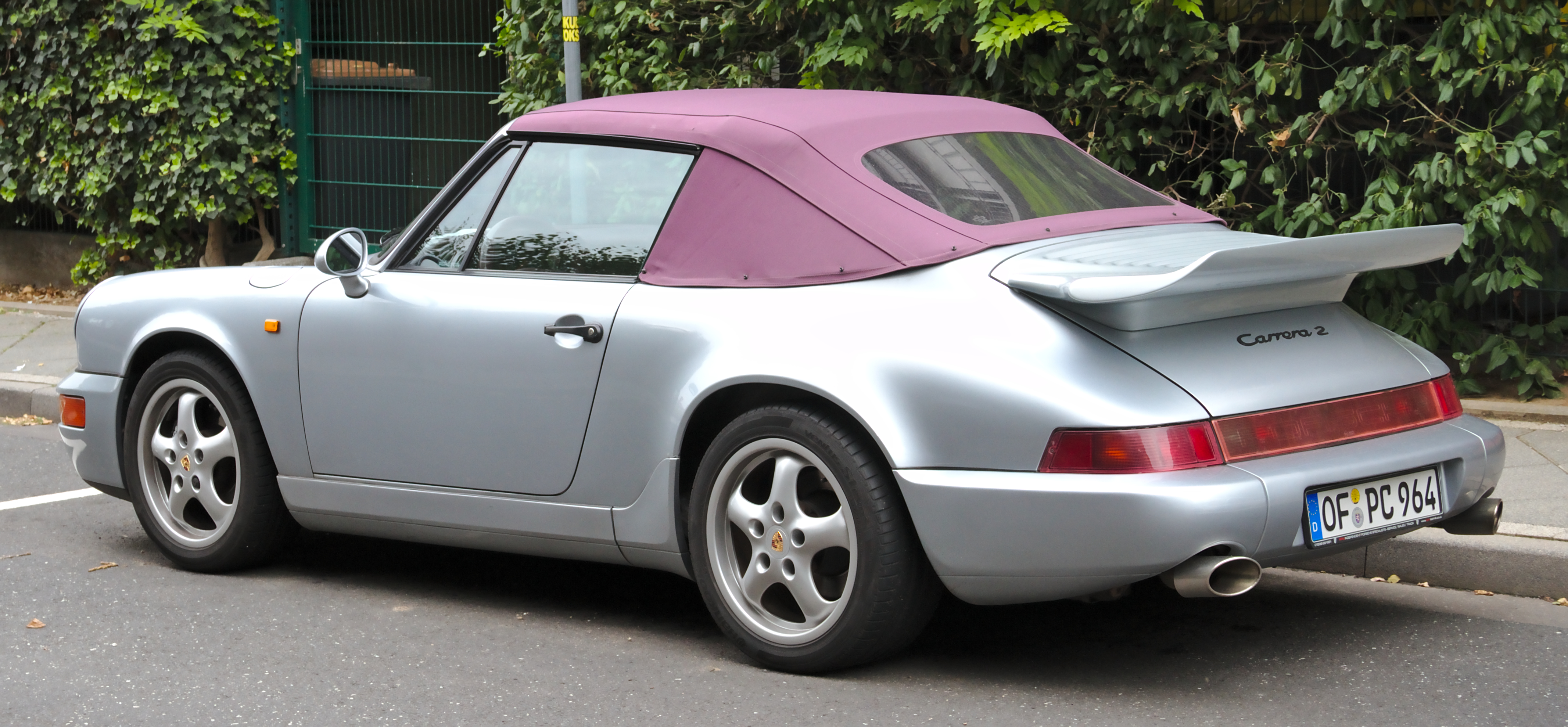 Porsche_964 in Frankfurt am Main